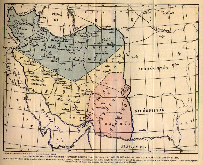 The Russo-British Pact in 1907 (spheres of influence in Persia)